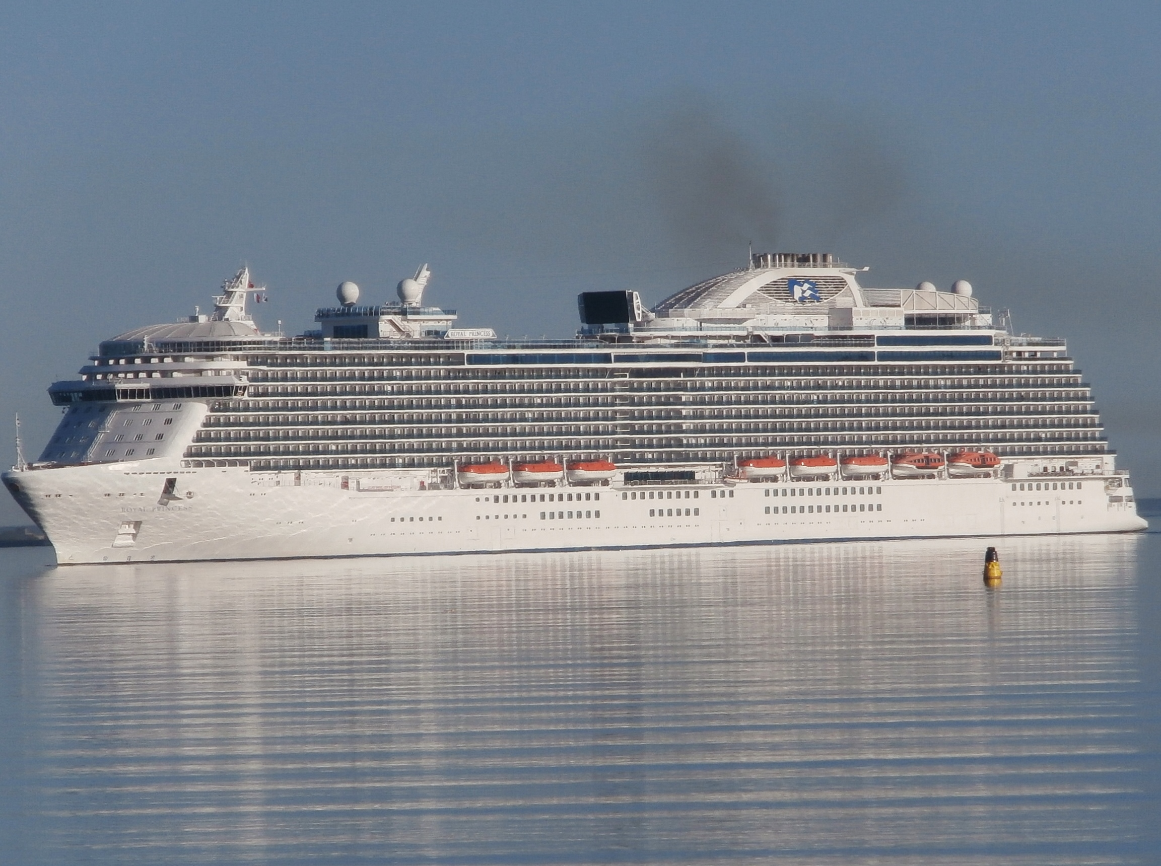 Royal Princess passing southwestern buoy Russalka N Q(1)W 1s (B: 59°26′57.7″N; L: 24°46′59.92″E), Tallinn Bay, Tallinn 17 May 2014